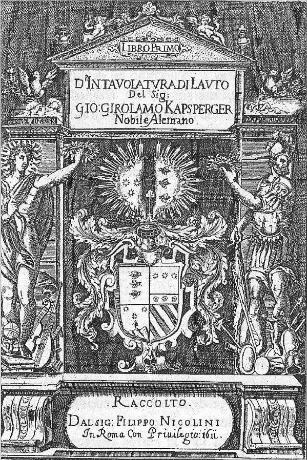 Front cover of J.H. Kapsberger's Libro I d'intavolatura di lauto (1611)